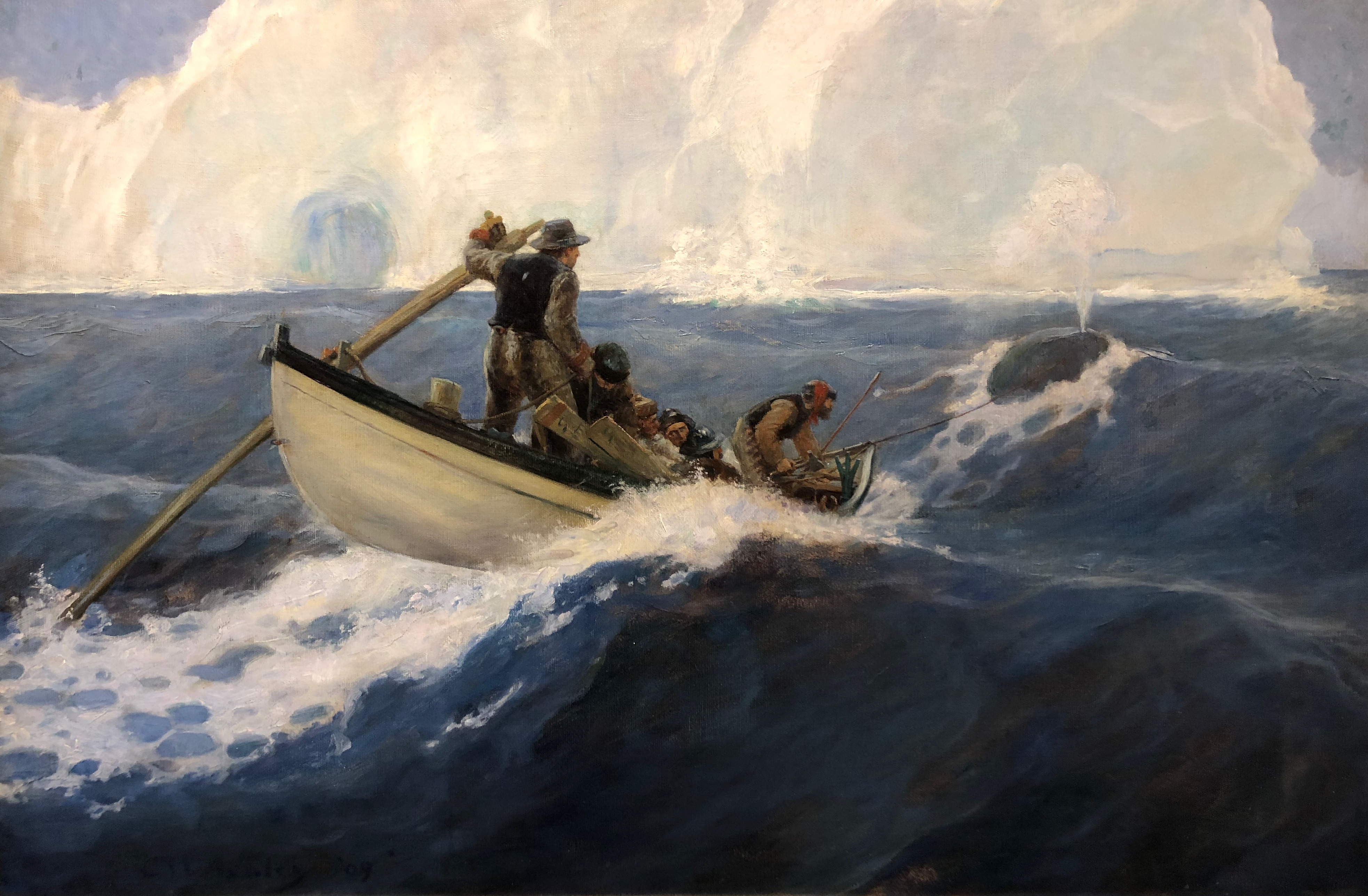 The Chase of the Bowhead Whale, 1909 Clifford Warren Ashley (1881-1947) oil on canvas New Bedford Whaling Museum gift of Talcott M. Banks 1982.3